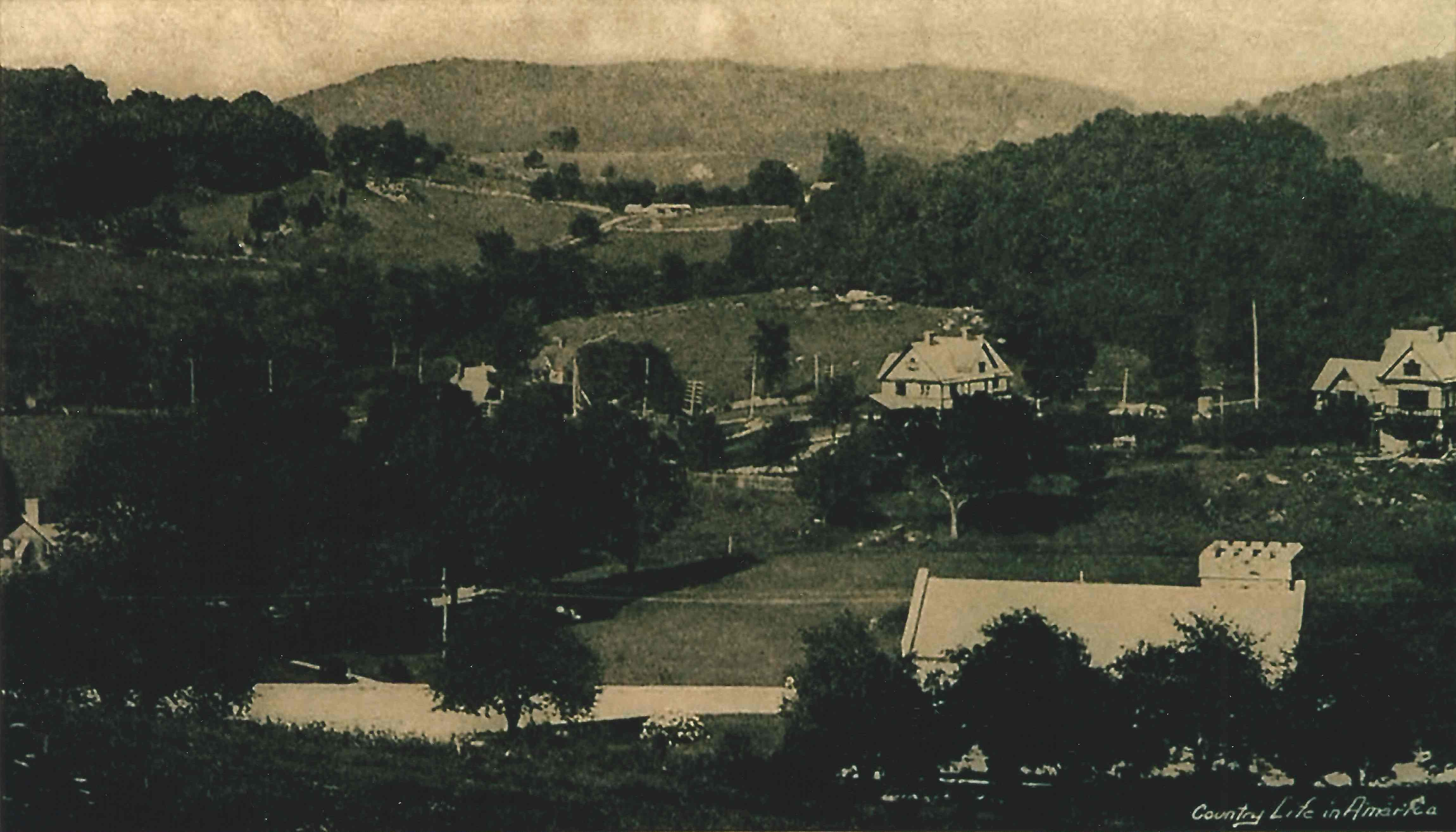 An area of Briarcliff from Pine Hill, before 1905. Image is marked "Country Life in America" in lower right corner. The image shows an area of Briarcliff Manor taken from Pine Hill with Dysart House and Briarcliff Congregational Church visible. The image was taken prior to the 1905 expansion of the church.